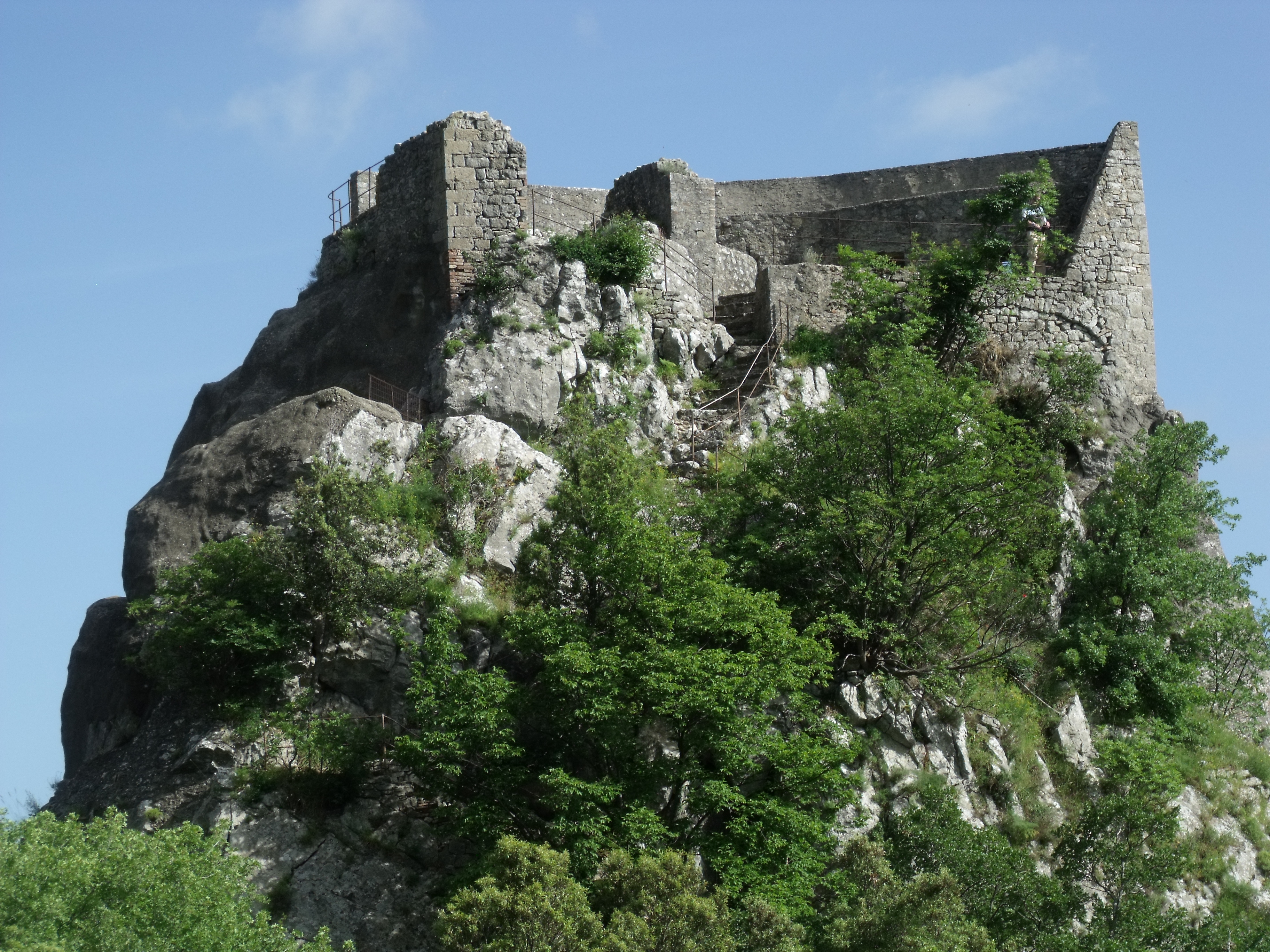 Aldobrandeschi Castle Il Sasso (La Pietra, La Rocca) in Roccalbegna, Province of Grosseto, Tuscany, Italy